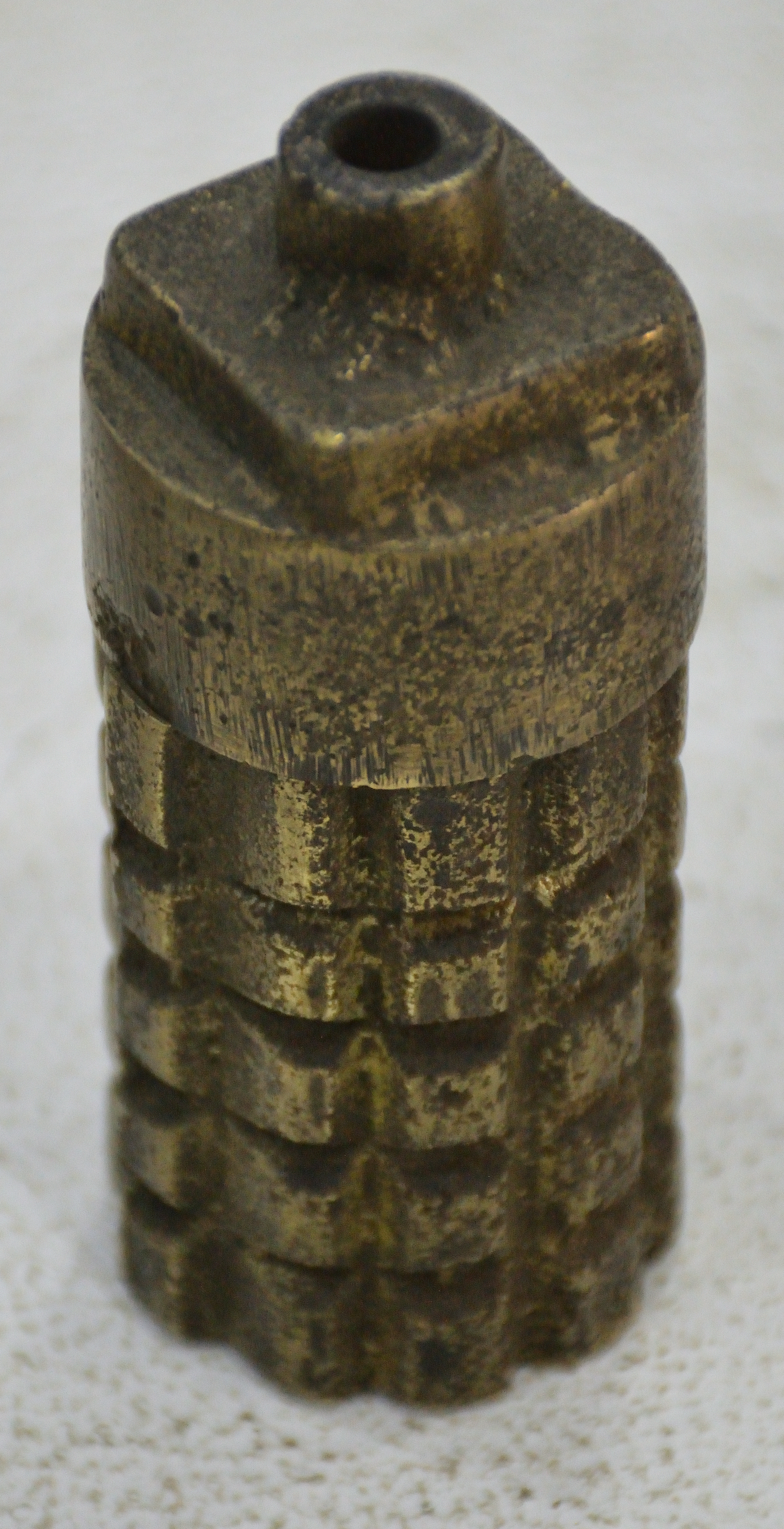 This countrymade pipe bomb was the property of the Congress Socialist Party that recovered in 1943.This photograph was taken at the West Bengal Police pavilion, during the 41st International Kolkata Book Fair at Milan Mela Complex that organised by the Publishers & Booksellers Guild, Kolkata.